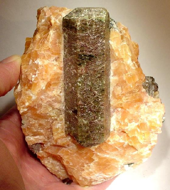 Apatite, Calcite Locality: Yates mine, Otter Lake, Pontiac RCM, Outaouais, Québec, Canada (Locality at ) A DRAMATIC CABINET specimen of a lustrous, 9.0 cm, doubly terminated, variegated apatite crystal very nicely set in contrasting orange calcite matrix from the famous Yates Mine at Otter Lake, Quebec. The lower apatite termination is partially contacted, but does not detract at all from this fine, showy piece. 12.6 x 9.8 x 9.5 cm